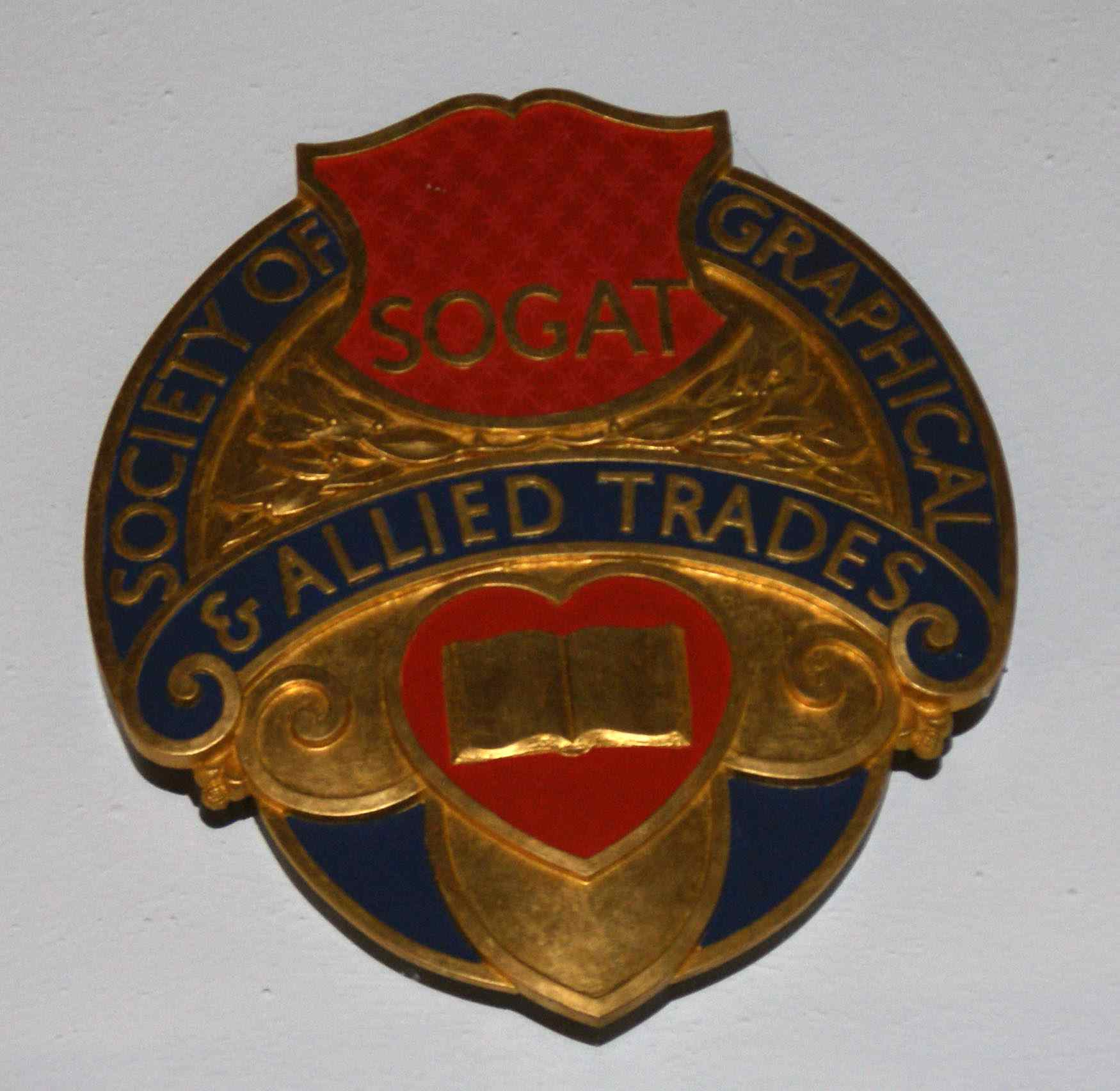 SOGAT Crest. Blue, red and gold crest with gold lettering reading "SOGAT, Society of Graphical and Allied Trades" showing the image of a book within a heart. Accession Number: SH.2009.368 Further Notes: The Society of Graphical and Aliied Trades (SOGAT) became an industrial union in 1783 when three London based craft societies came together and decided to take action to achieve a reduction of the working week from 78 hours. Five of the leaders were sent to prison for two years but victory was ultimately achieved. The union grew and amalgamated with many other print unions. By 1983 SOGAT was a combination of 39 unions. This crest is on display at the People's Story Museum, Canongate, The Royal Mile, Edinburgh. Edinburgh City of Print is a joint project between City of Edinburgh Museums and the Scottish Archive of Print and Publishing History Records (SAPPHIRE). The project aims to catalogue and make accessible the wealth of printing collections held by City of Edinburgh Museums. For more information about the project please visit